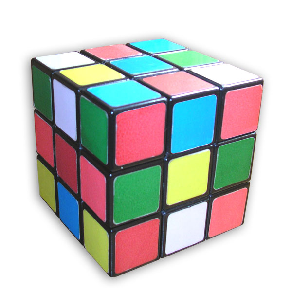 Rubik's Cube in scrambled state